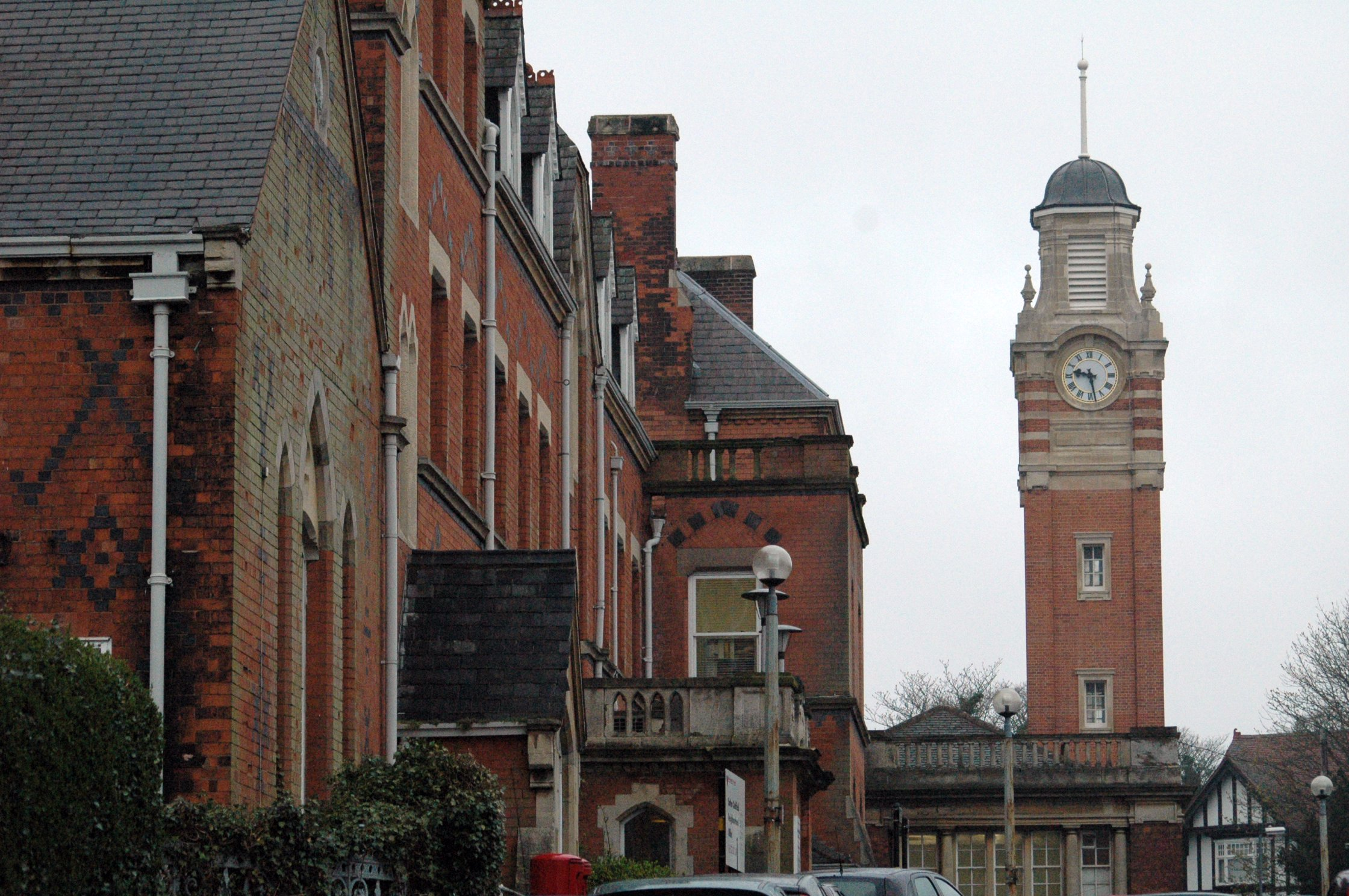 The front façade of Sutton town hall looking north in Sutton Coldfield, Birmingham, England. The clock tower at the end is part of the 1906 extension to the building